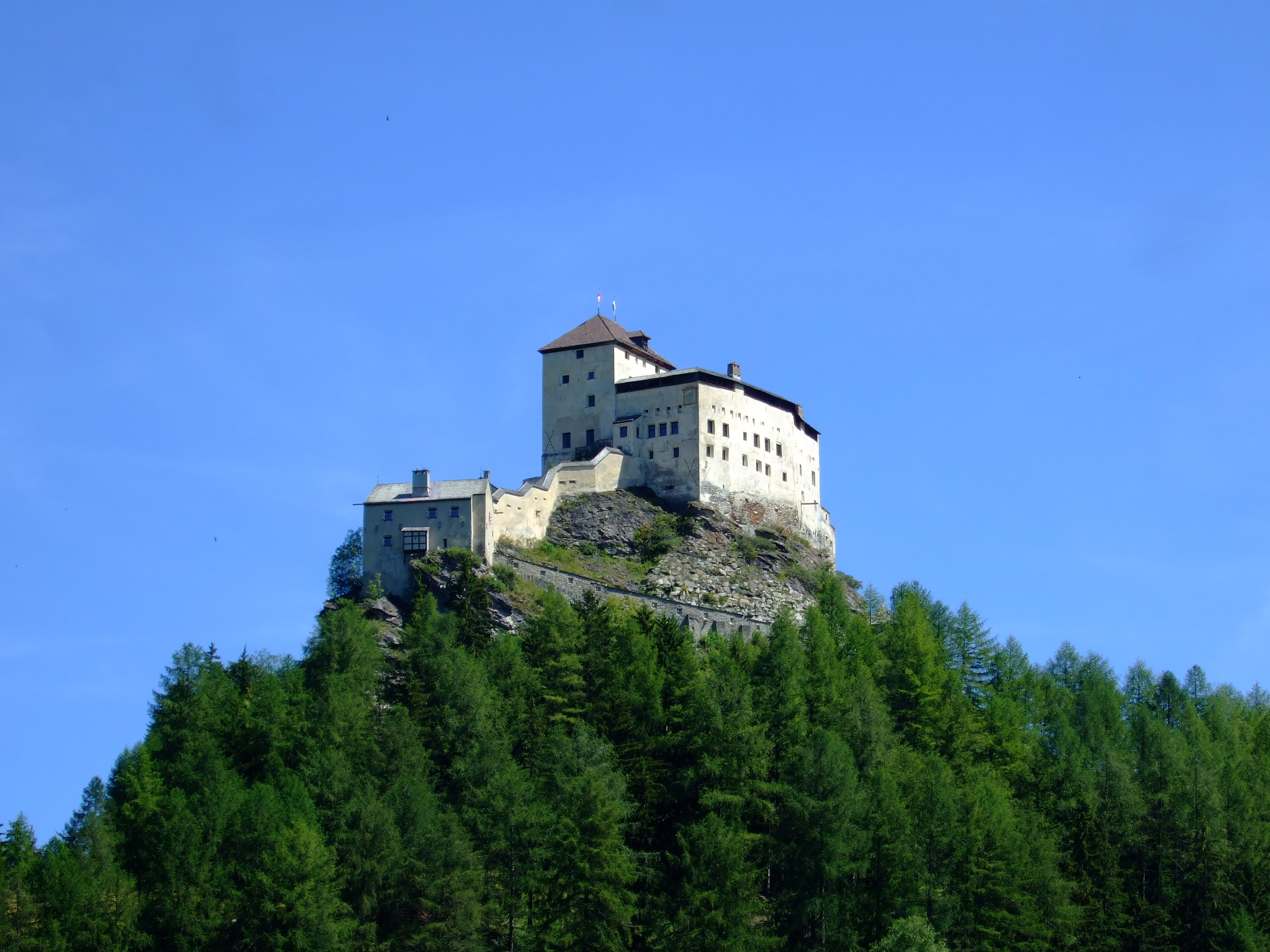 Castle of Tarasp, Switzerland